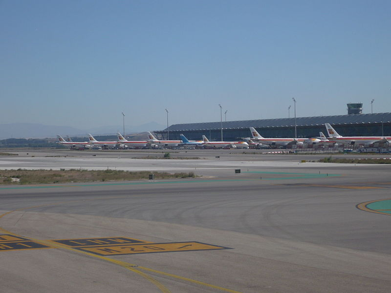 Aircraft at Madrid Barajas Airport, Terminal 4S